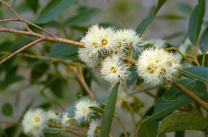 Flowers of Eucalyptus resinifera in the Australian National Botanic Gardens